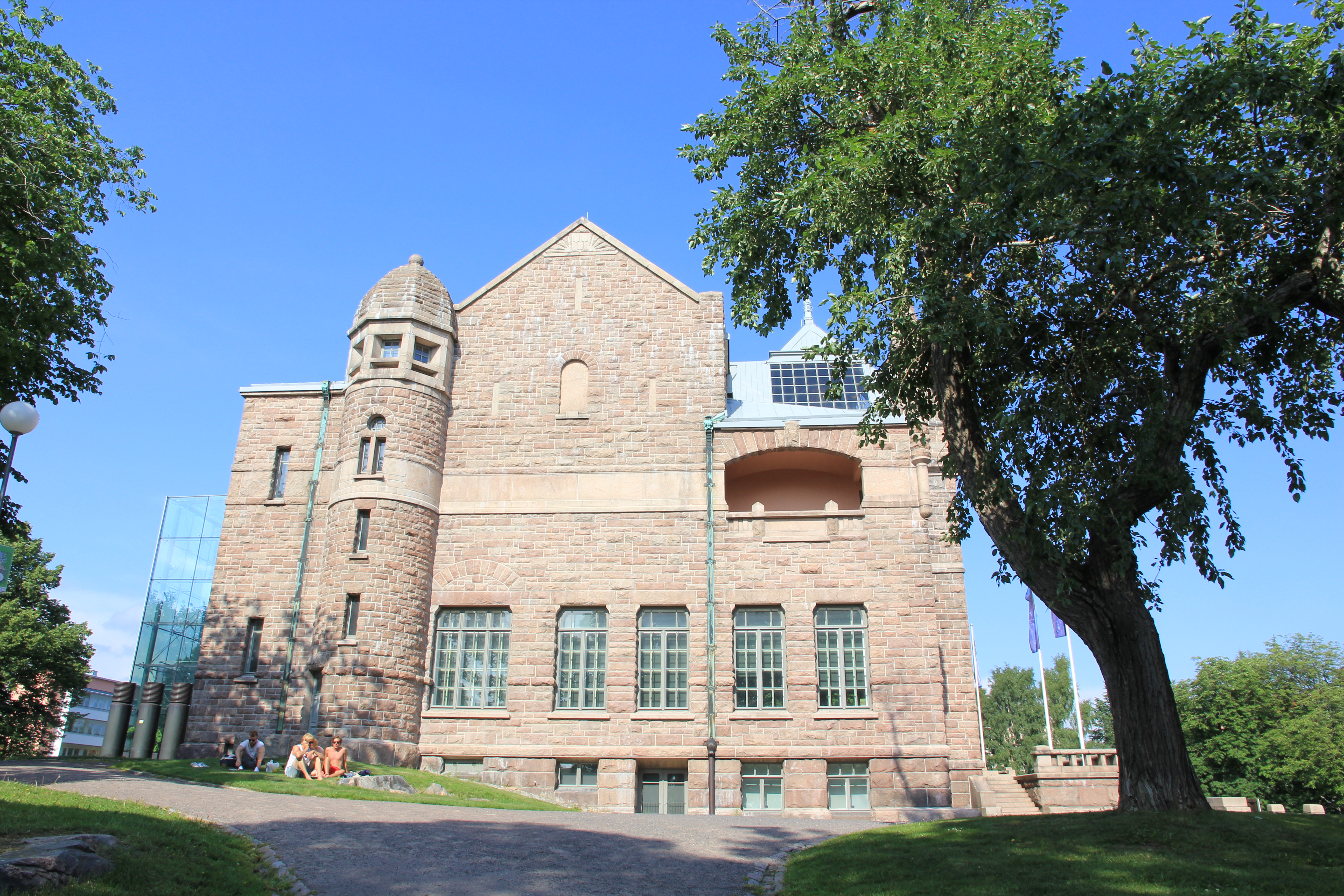 Western end of Turku art museum.